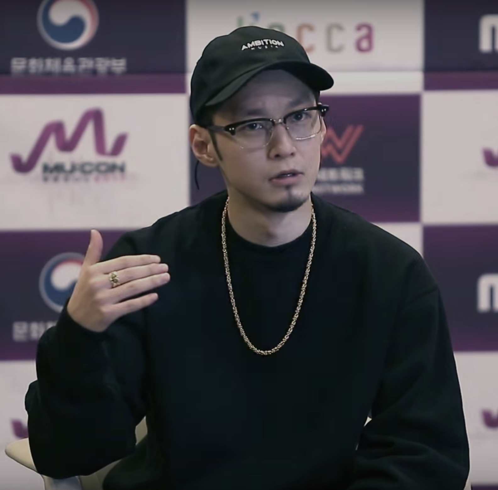 The Quiett in an interview with Ten Asia in 2017.